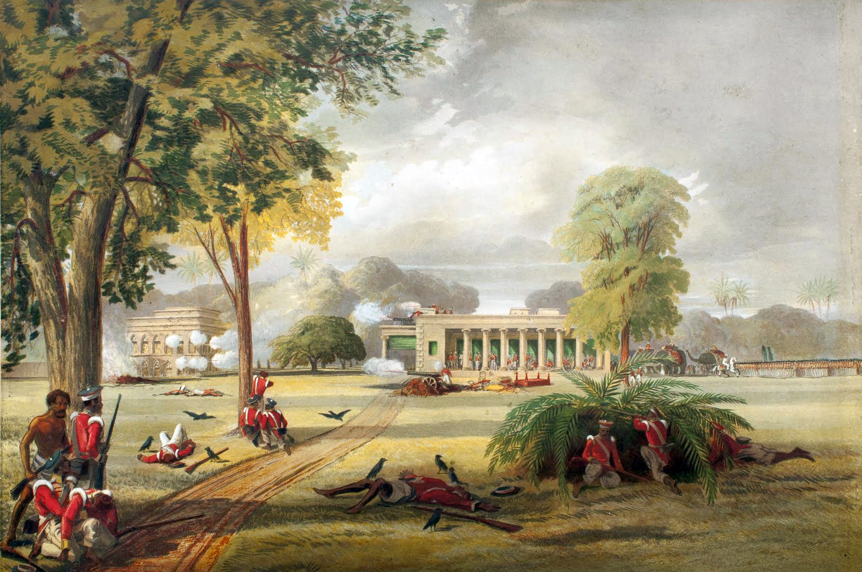 "Defence of the Arrah House, 1857" by William Tayler - Coloured Lithograph from a drawing.